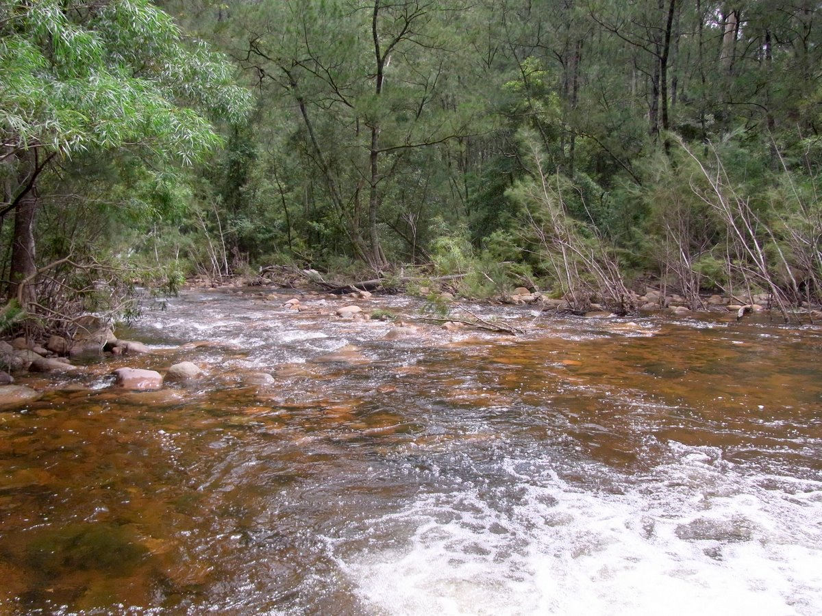 Wadbilliga River at the crossing of the Wadbilliga Track